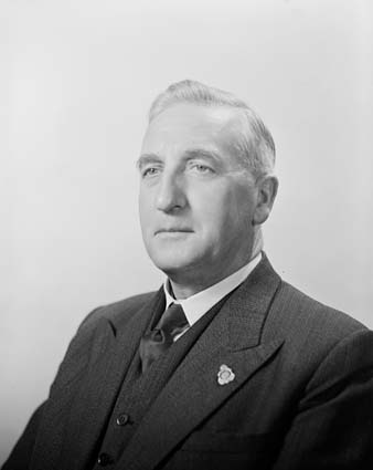 Australian politician Ted Mattner